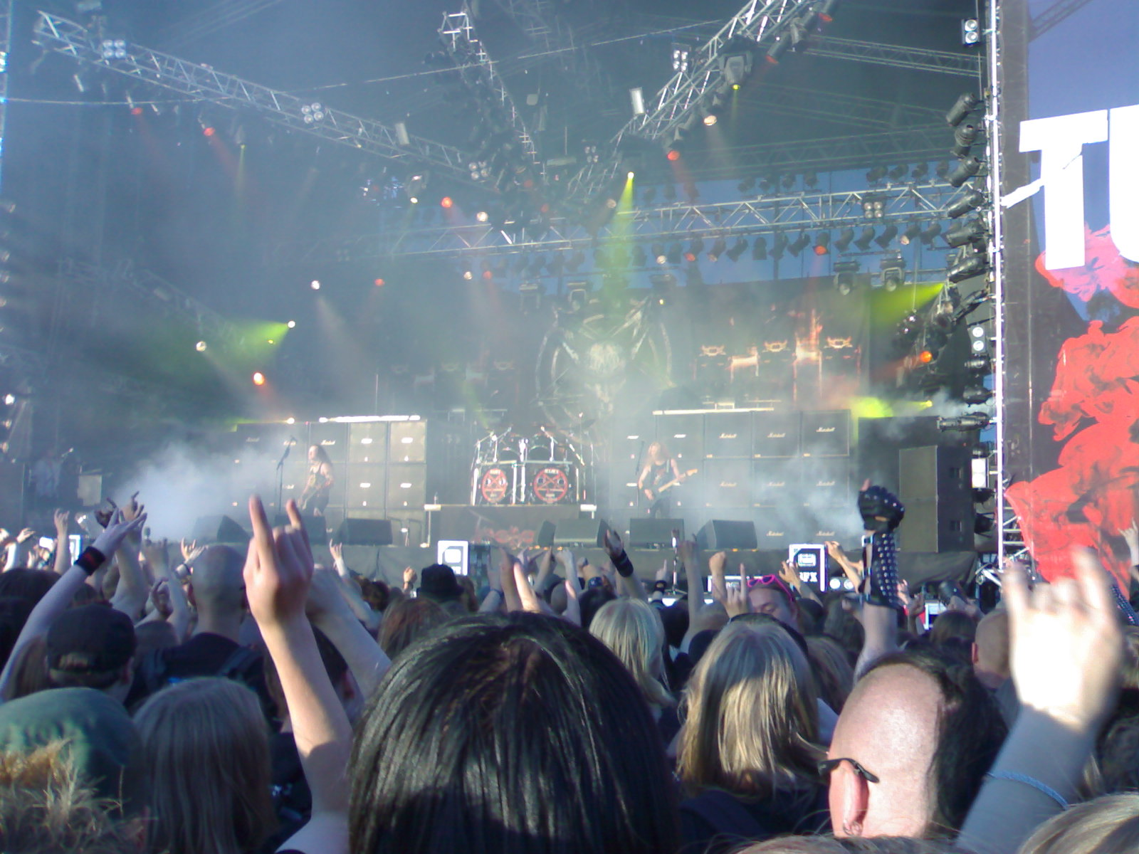 Venom live in Tuska Open Air 2006